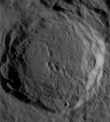 LROC image WAC No. M118838769ME.